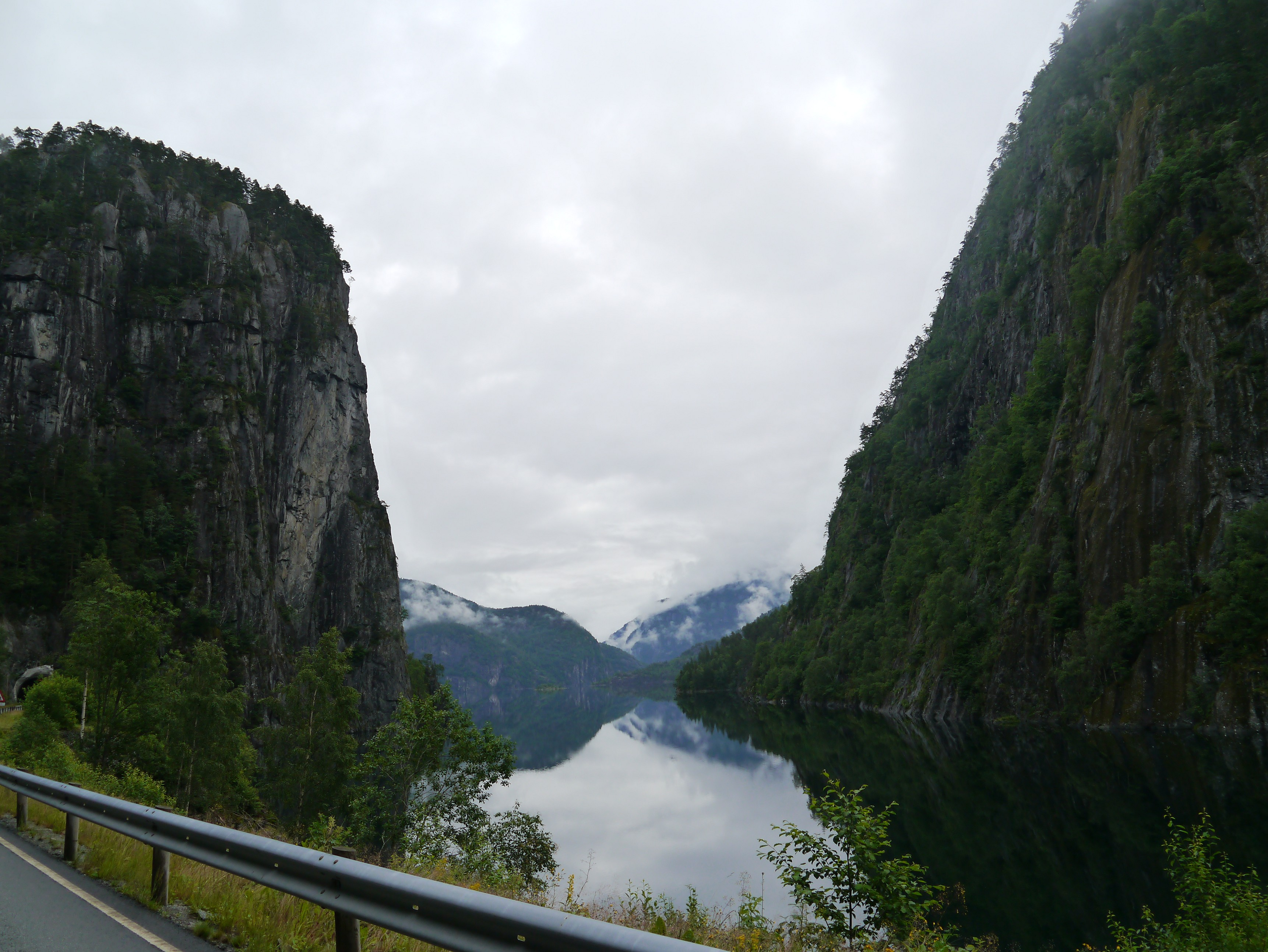 along Hardangerfjorden, Hordaland County, Western Norway